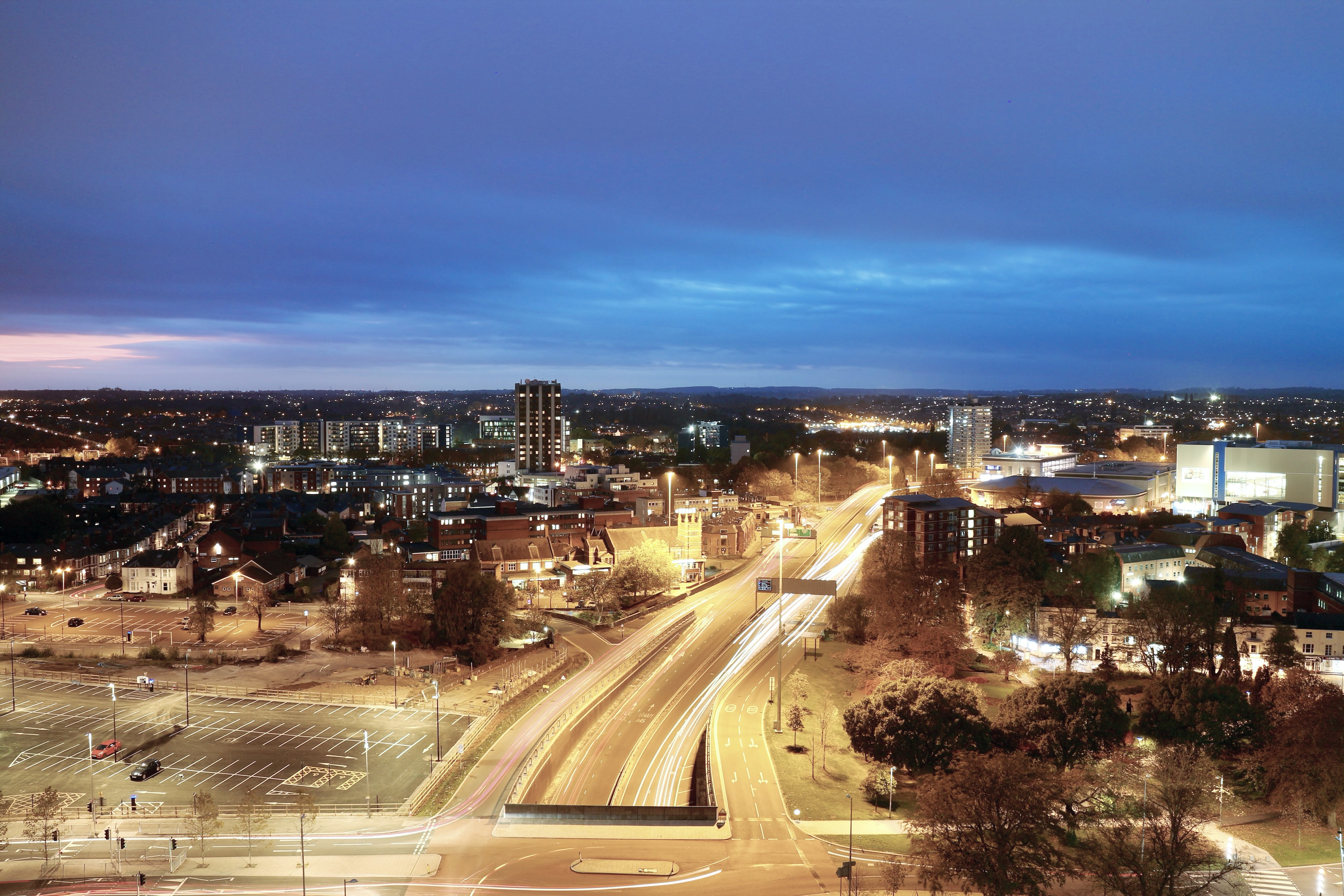 Coventry ring road (A4053) View of Junction 6 of the A4053, more commonly known as the Coventry ring road, taken from the balcony of One Friargate in Coventry, United Kingdom on 23 October 2018 18:28:54. Photography by Si Chun Lam. Some rights reserved. This image is licensed under the Creative Commons Attribution-ShareAlike 4.0 International (CC BY-SA 4.0) Licence